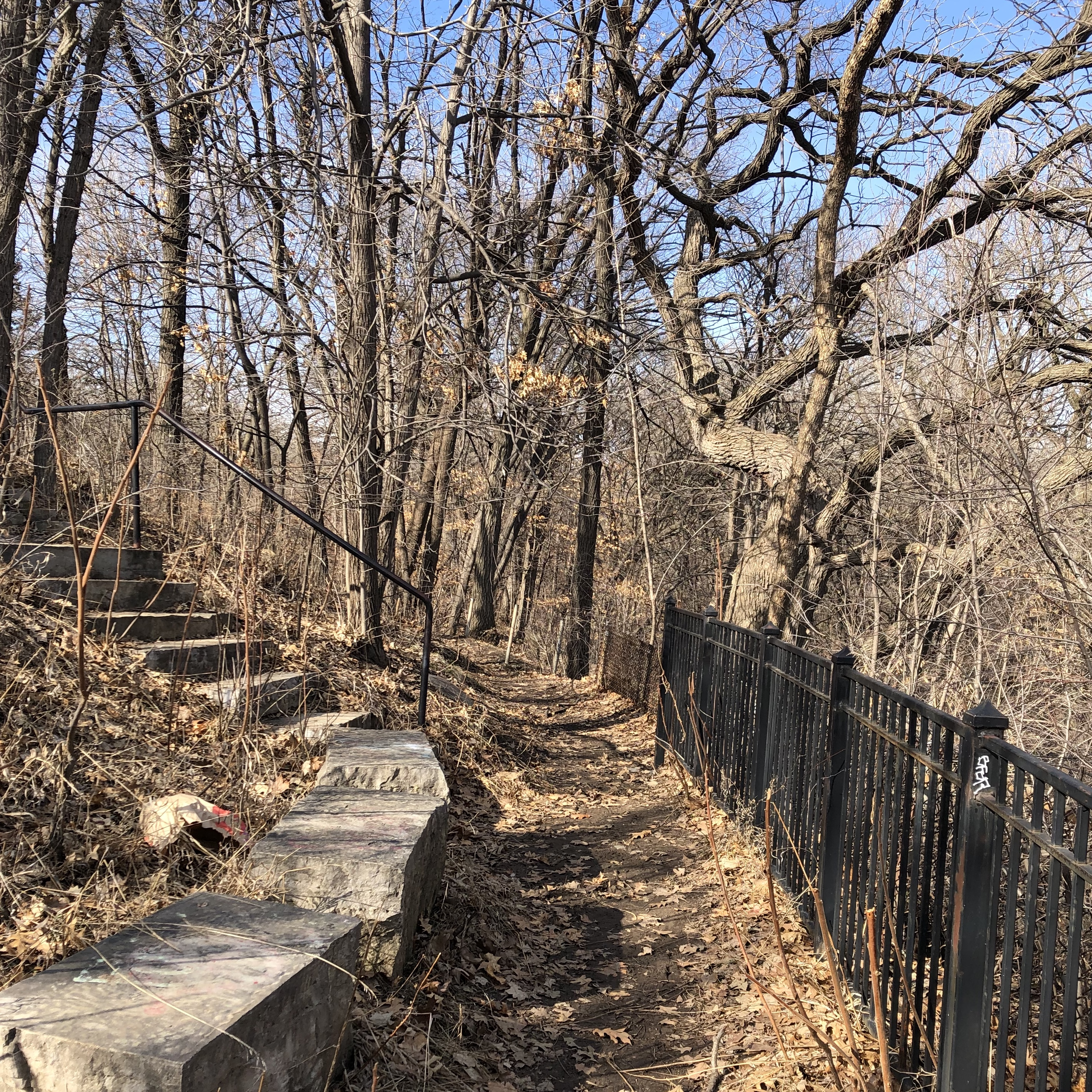 Limestone staircase descends to a trail in early springtime with a black, iron fence along the trail